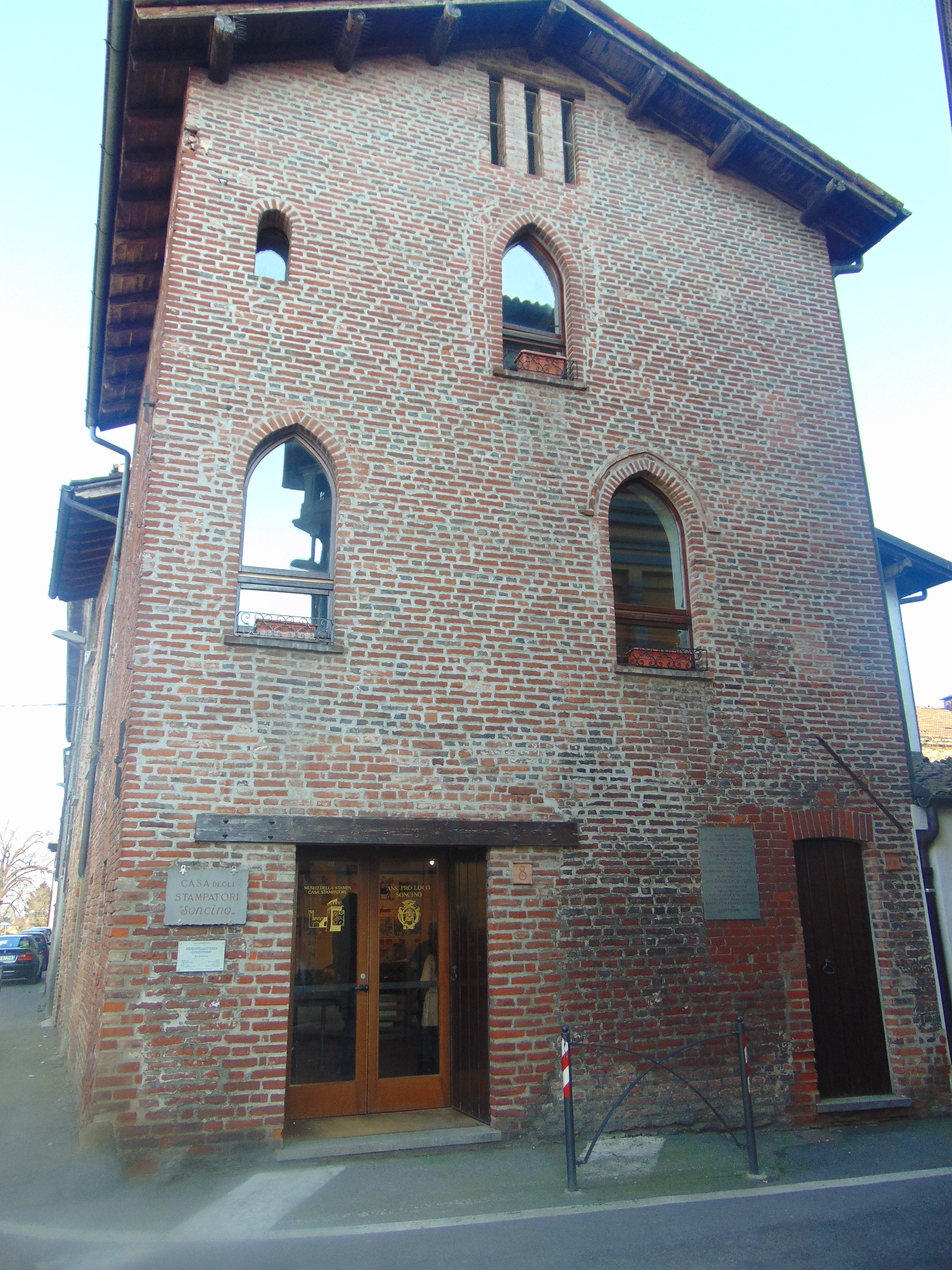 The house of the printers Soncino in Soncino Italy